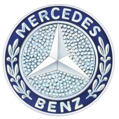 Logo of German automobile company Mercedes Benz, first released in 1926.